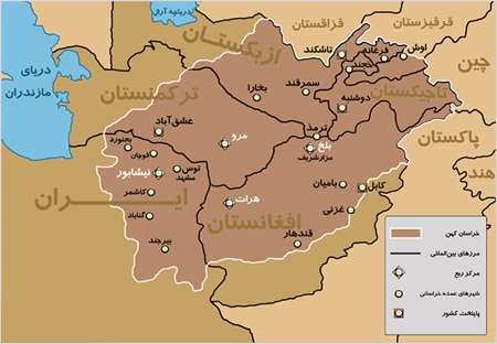 نقشه خراسان